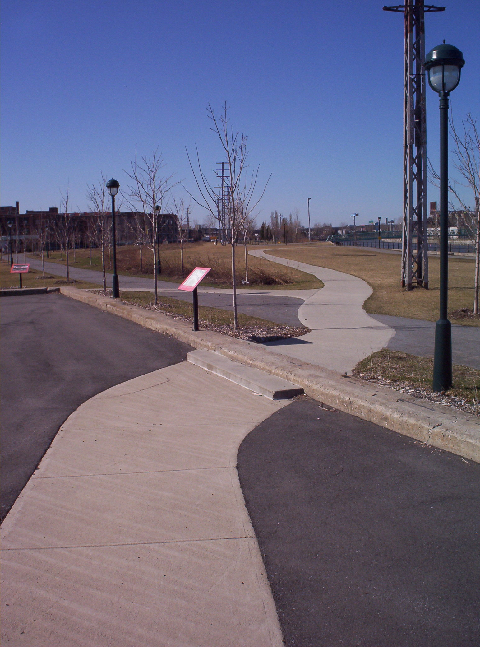 Summary: View on the old Saint-Pierre river site, near Lachine Canal in Montréal, Quebec Author: Colocho Date: April 10th, 2006